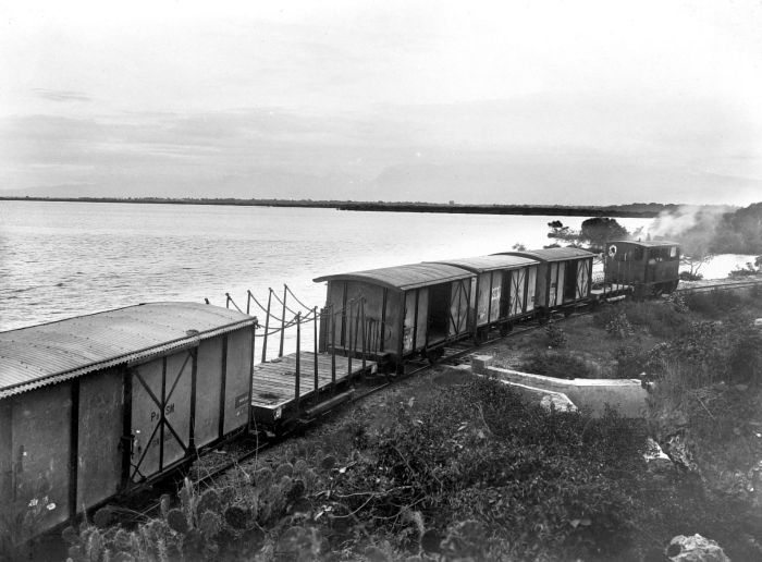 Locomotive and load-wagons of the Probolinggo Tram Company alang the coast near Probolinggo, East-Java